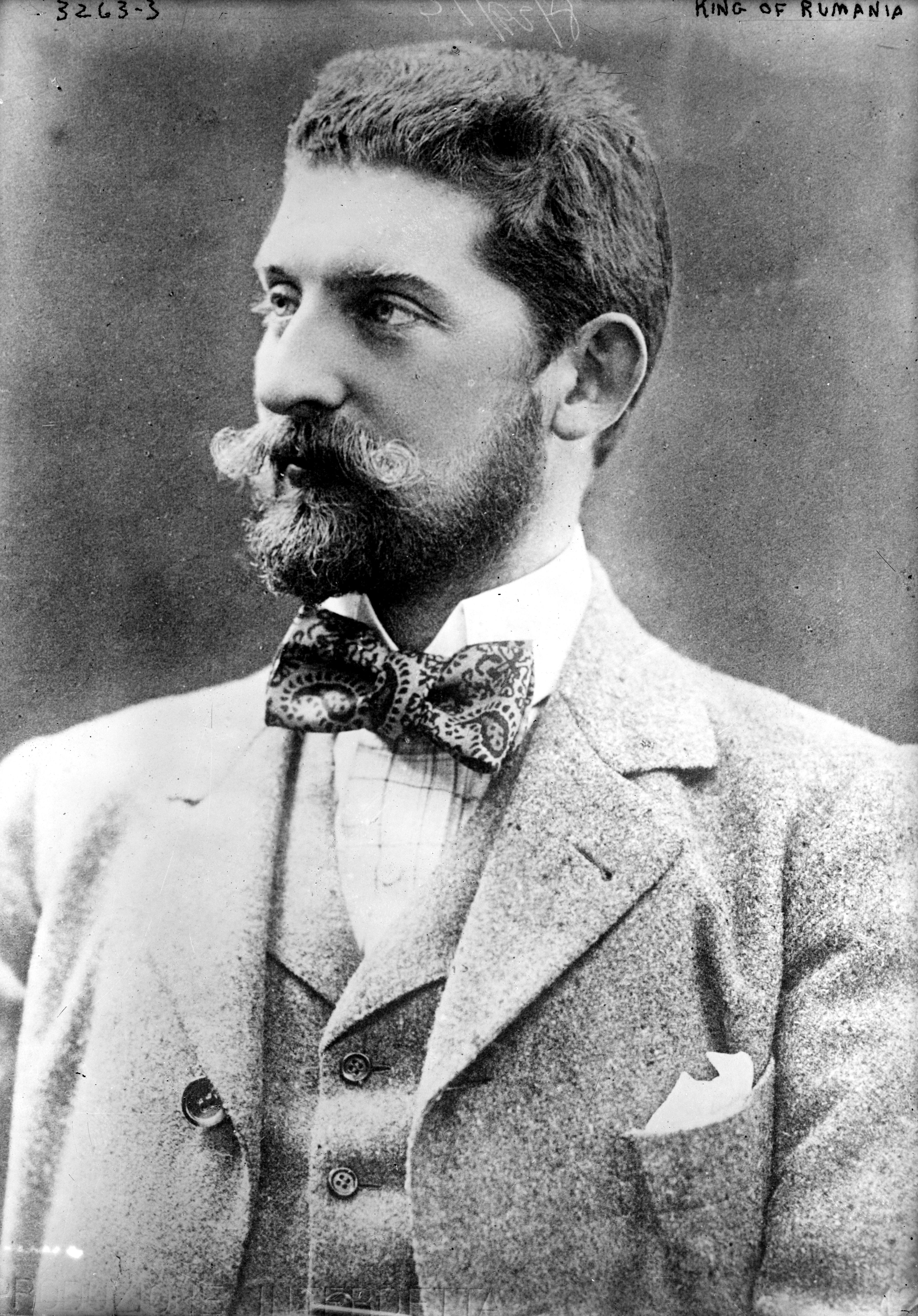 King Ferdinand of Romania